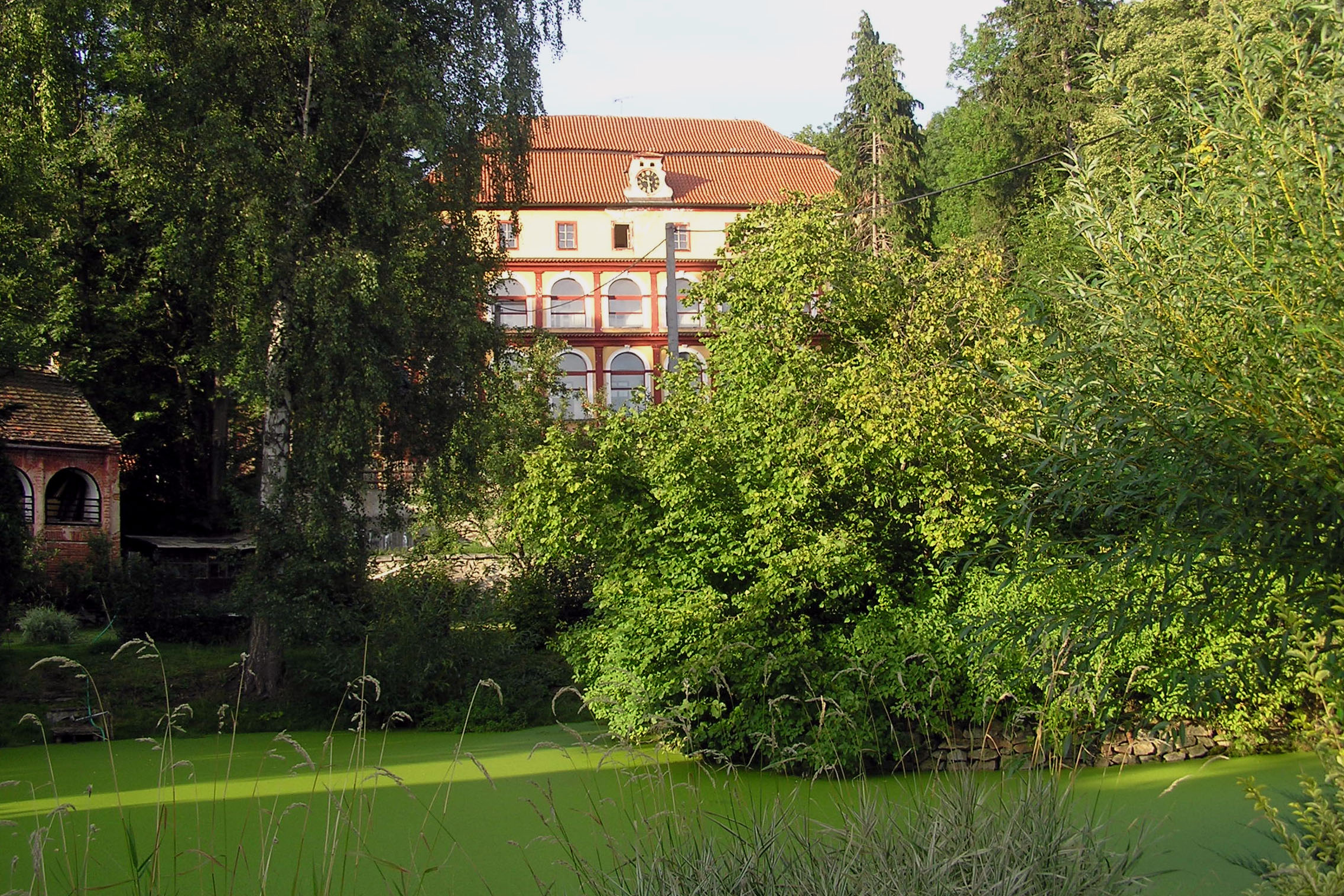 Castle Lčovice (South Bohemia)